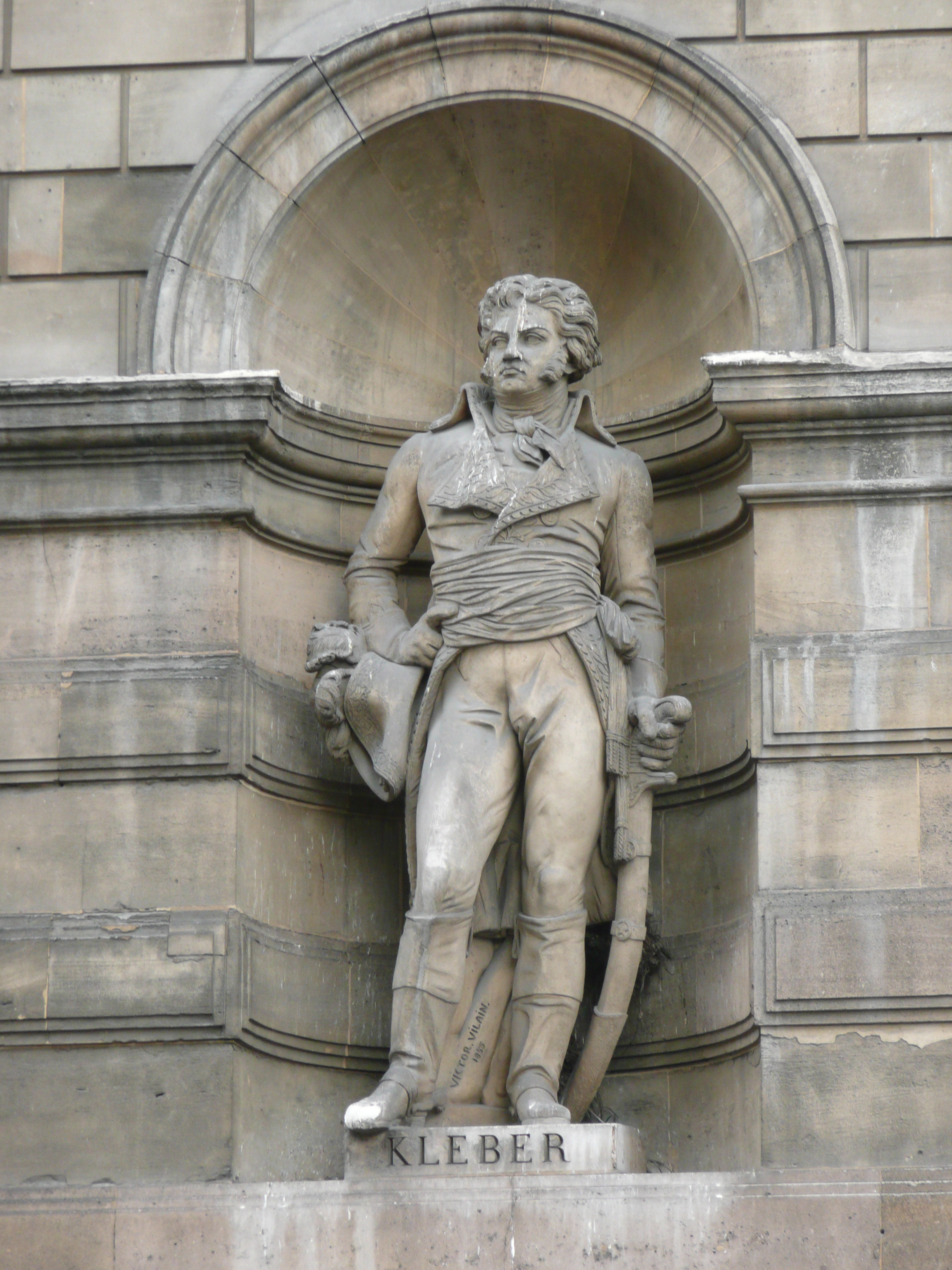 Statue of Jean Baptiste Kléber (1753–1800), general of the French Revolutionary army, in the niche second from the left at the ground-floor level of the north facade of the Pavillon de Rohan of the Louvre Palace, Paris